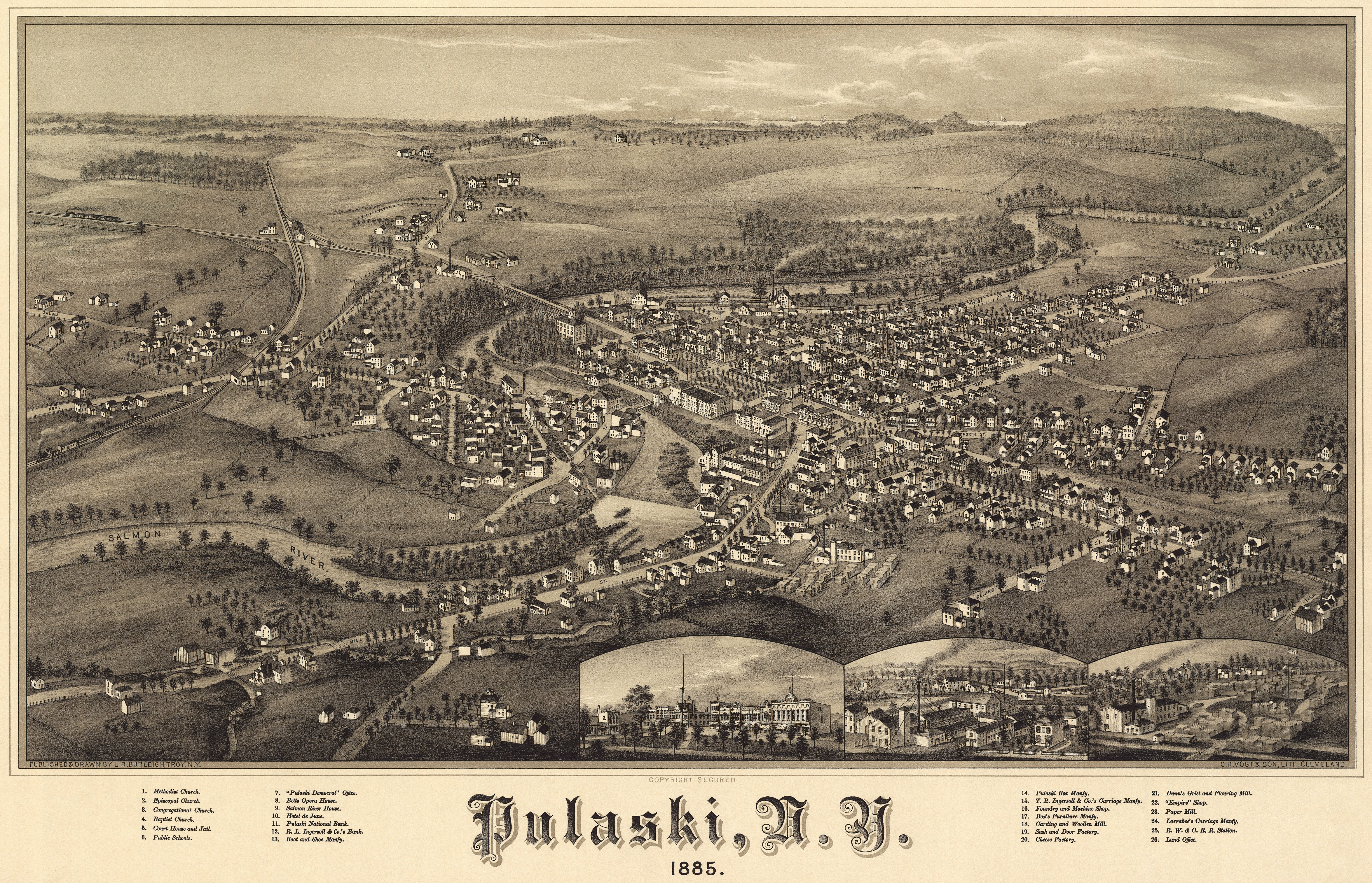 Pulaski, New York. Bird's eye view perspective map not drawn to scale.